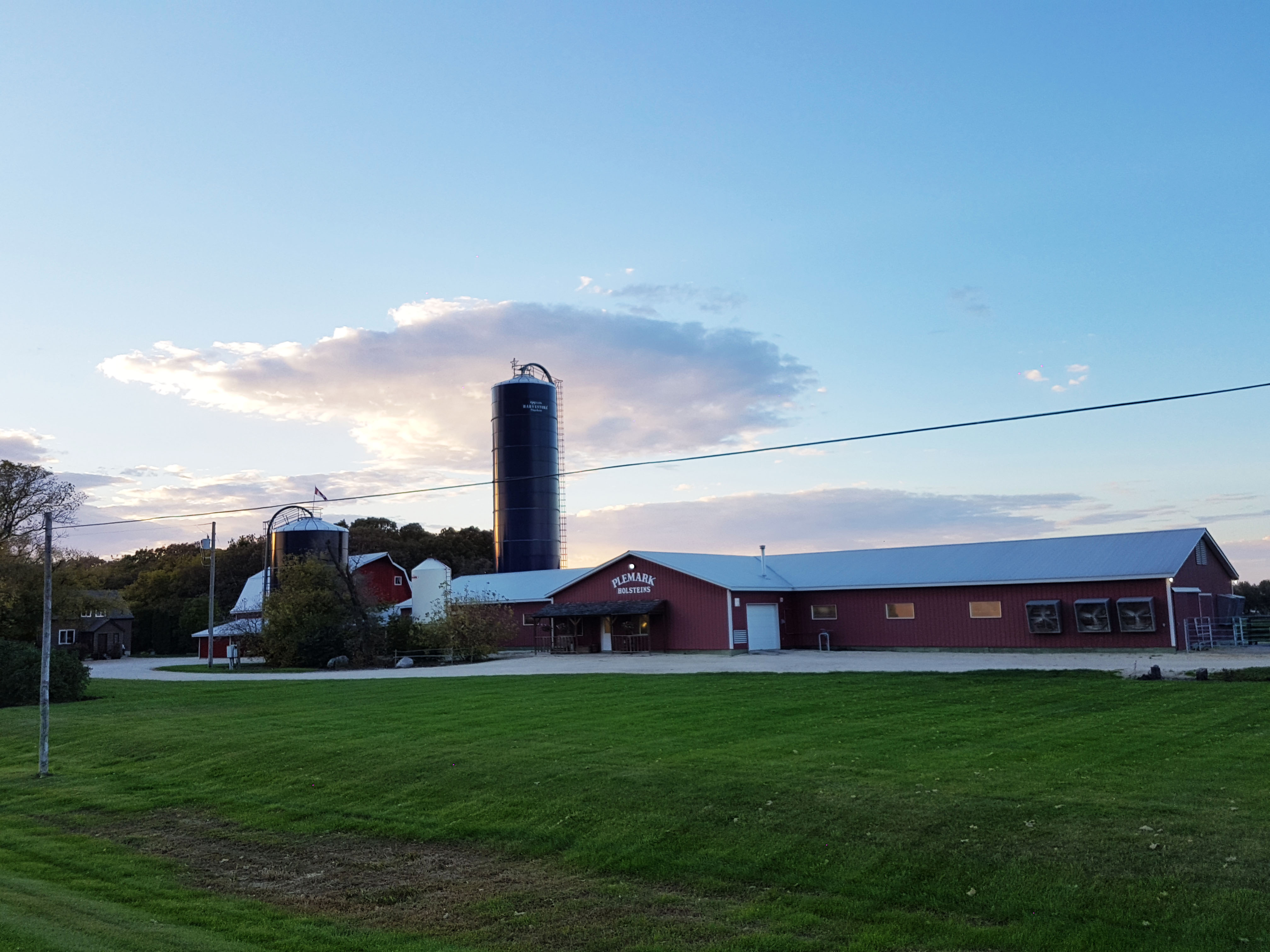 A family dairy farm located in the town of Blumenort, Manitoba.